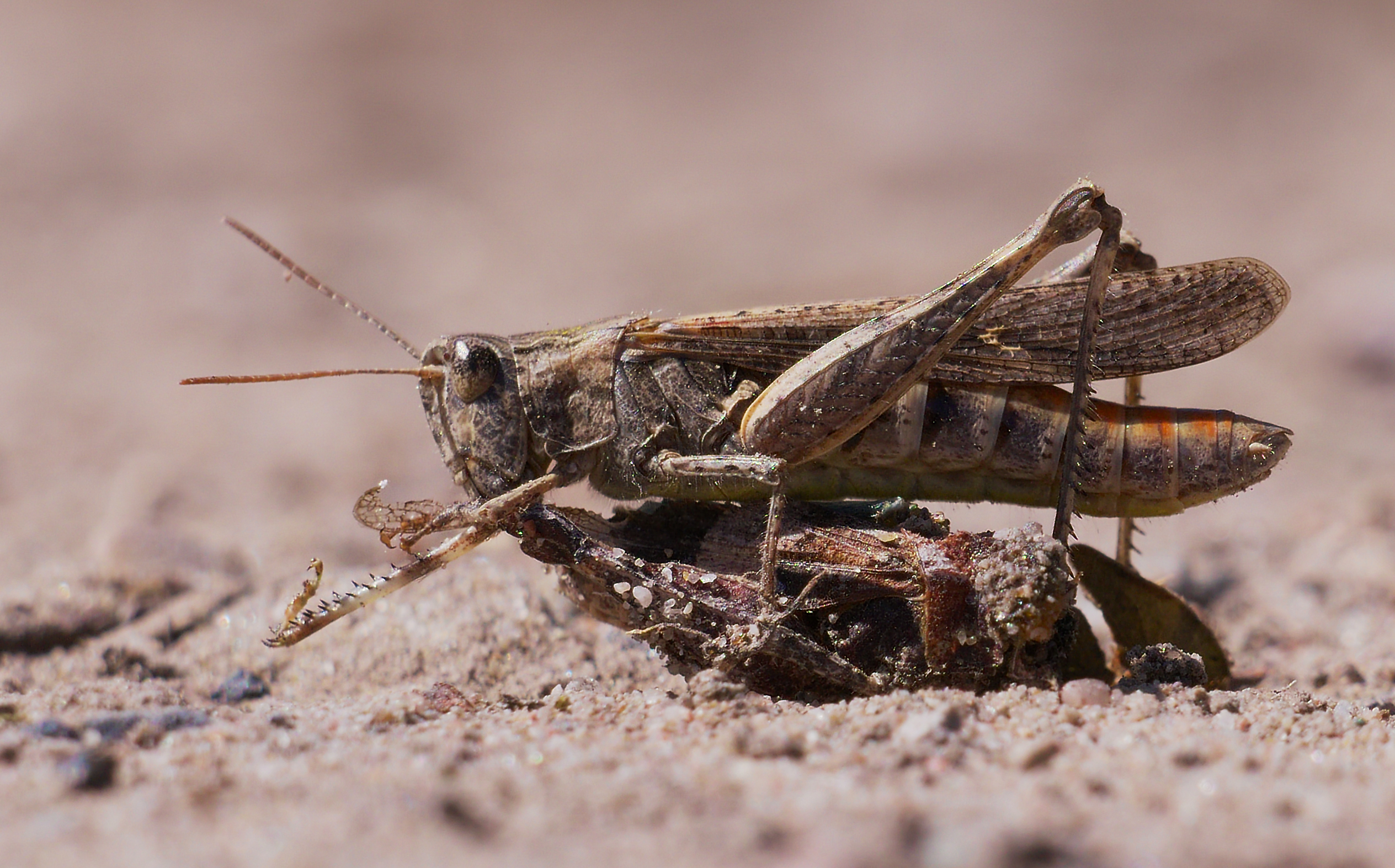 Chorthippus brunneus, female. Taken in the Viernheimer Heide in Viernheim, Hesse, Germany.